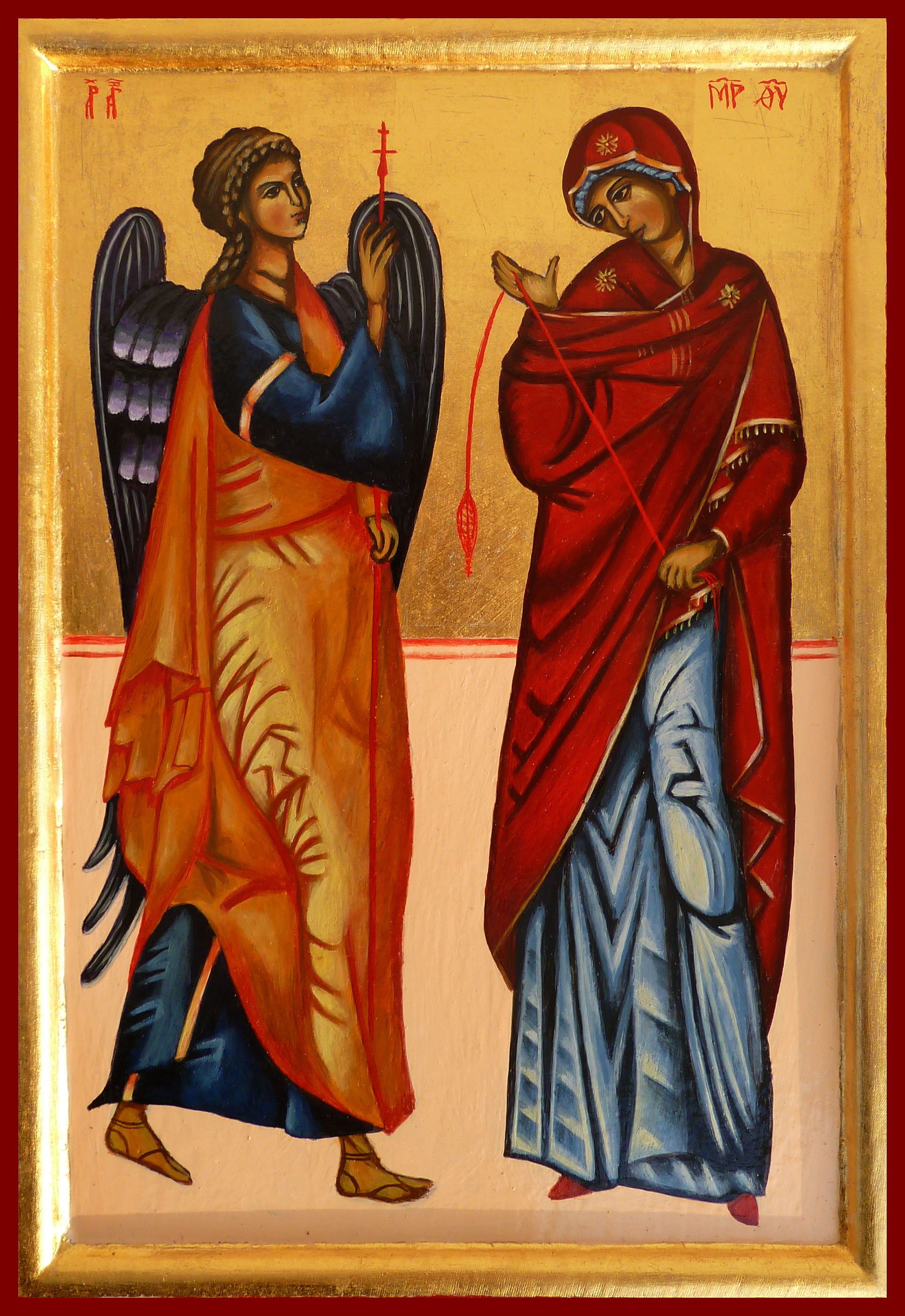 Announcement by the angel Gabriel to the Virgin Mary that she would conceive and become the mother of Jesus, the Son of God, marking his Incarnation.